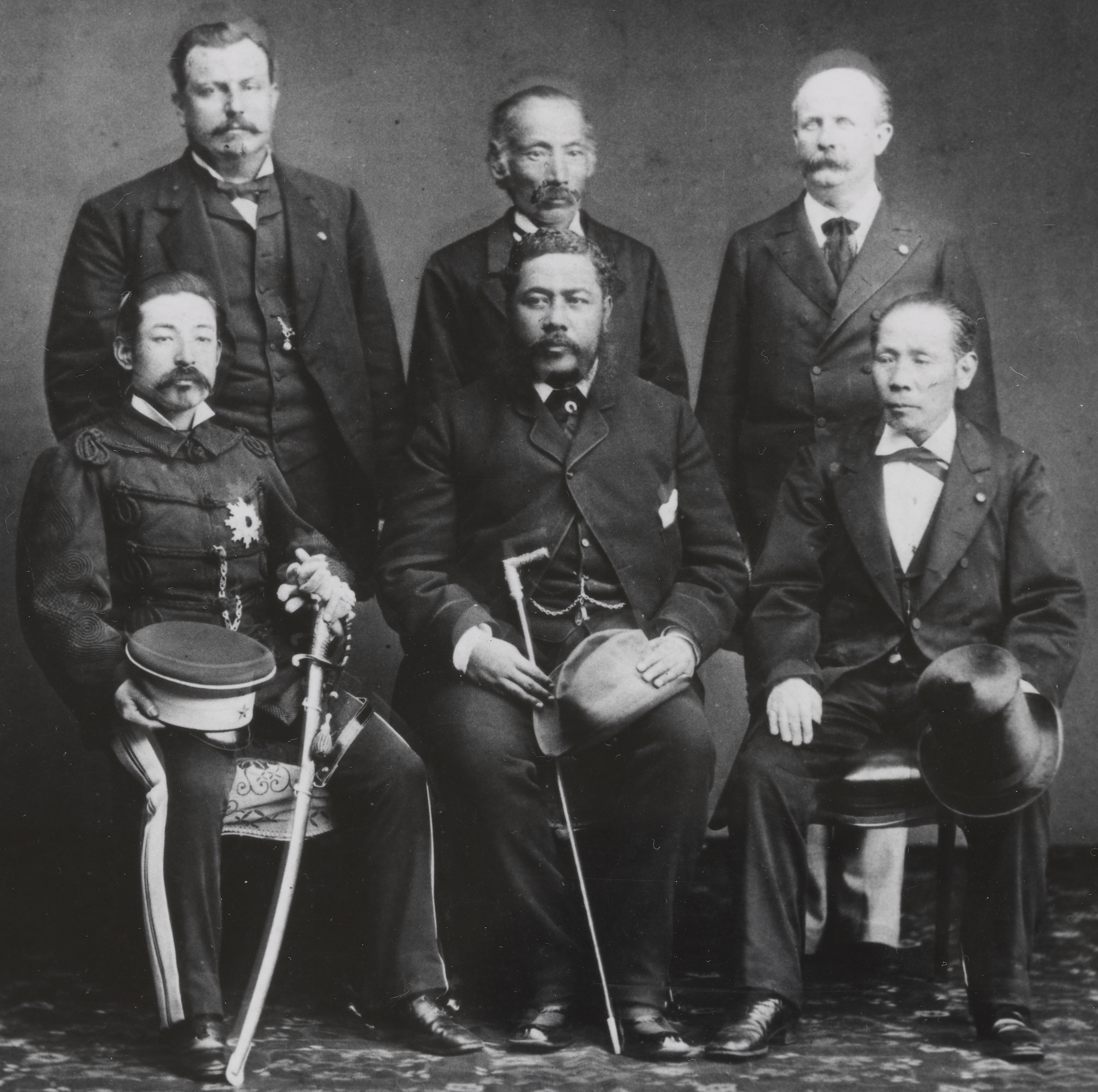 Front row (l-t-r): Lt. Gen Imperial Prince Higashifushimi Yoshiaki; King Kalākaua of Hawaiʻi; and Sano Tsunetami, Japanese Minister of Finance. Back row (l-t-r): Col. Charles Hastings Judd, Kalākaua's aide; Tokunō Ryōsuke, Japanese Finance Ministry Printing Bureau Director; and William Nevins Armstrong, Hawaiian immigration commissioner and Kalākaua's aide.